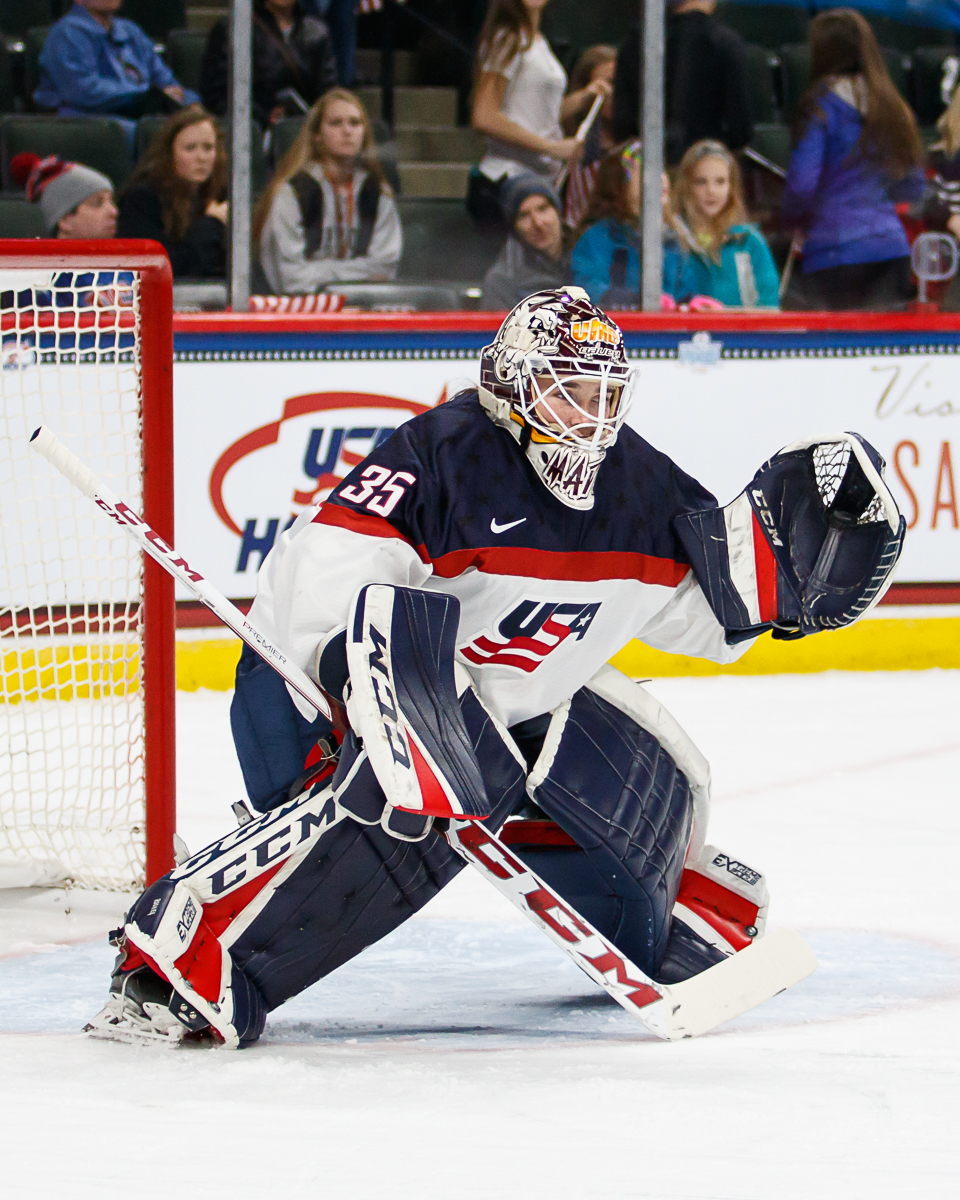 Maddie Rooney playing for Team USA in 2017